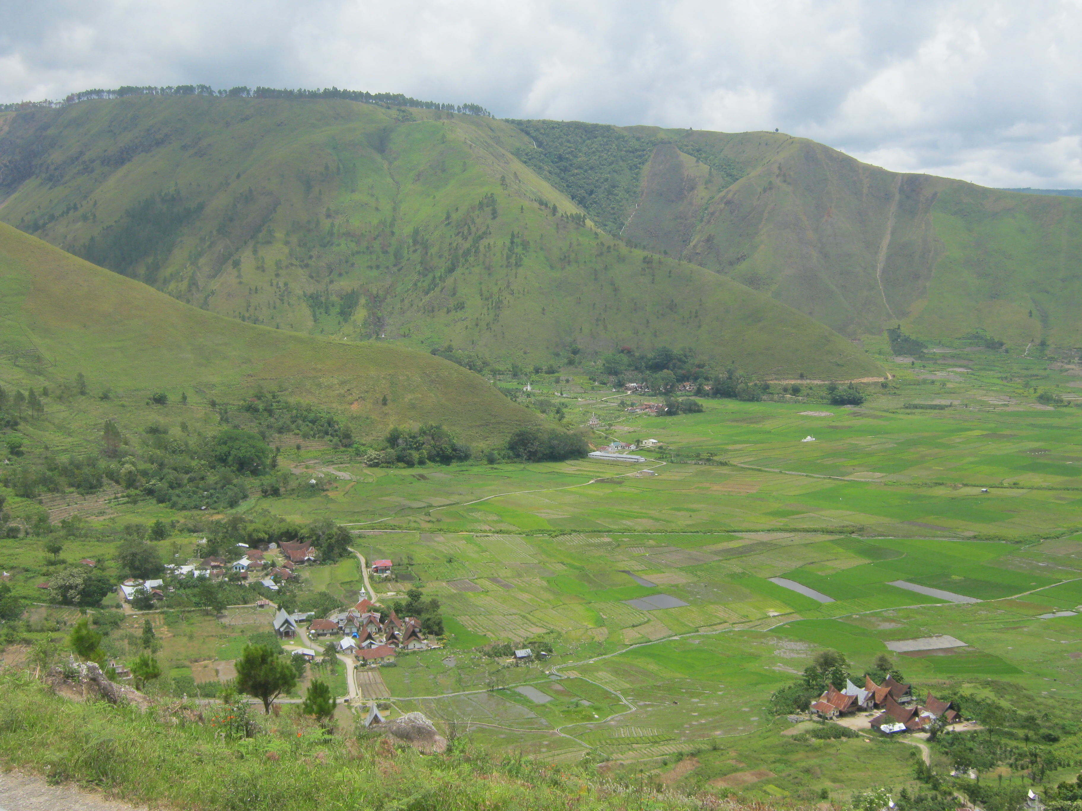 Desa Sianjur Mulamula